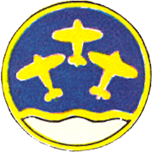 Emblem of the 402d Bombardment Squadron (earlier 12th Reconnaissance Squadron (Heavy) (World War II)